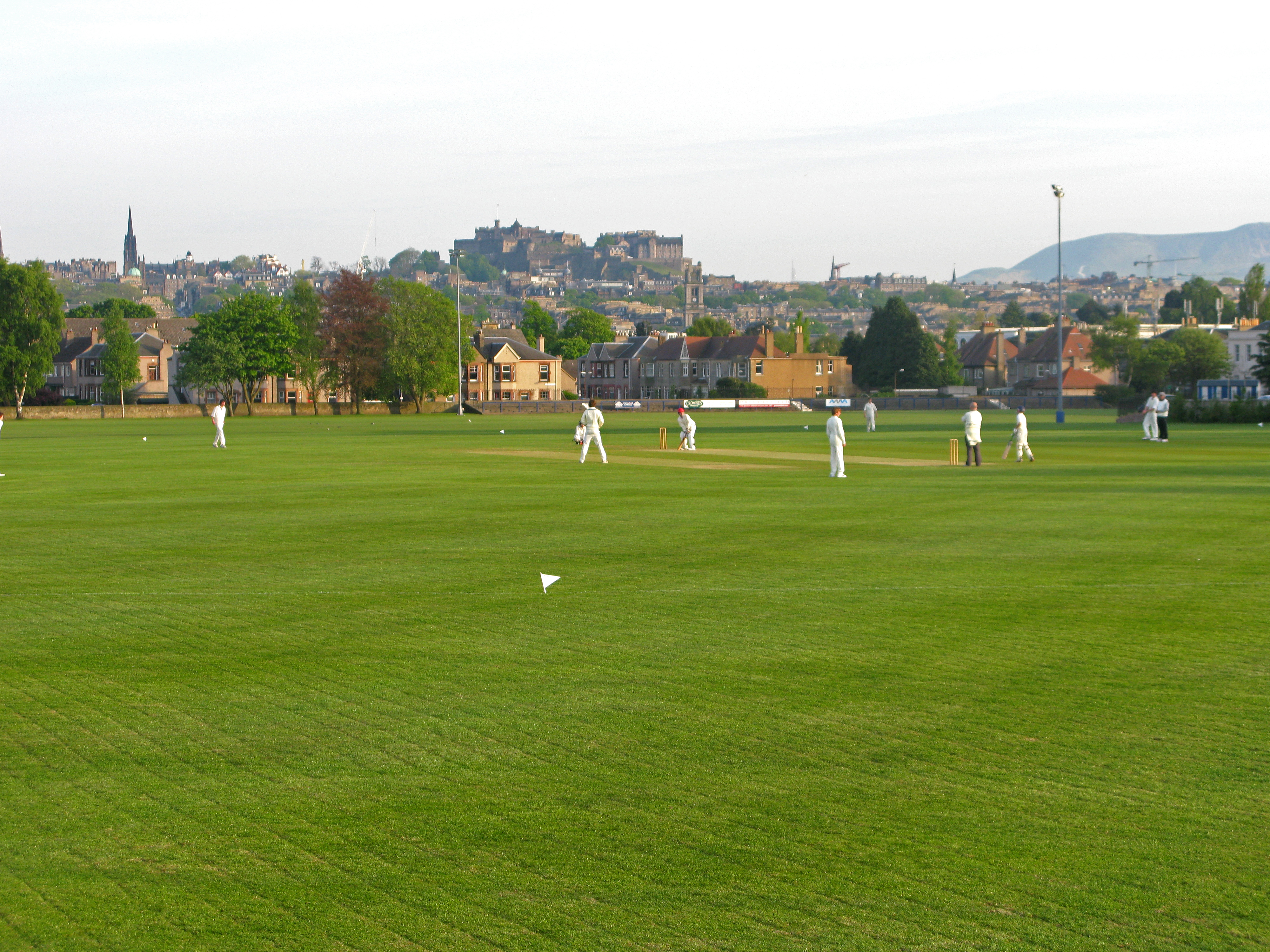 Cricket at Ferry Road